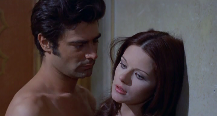 Screenshot from Italian film Quando l'amore è sensualità (1973)